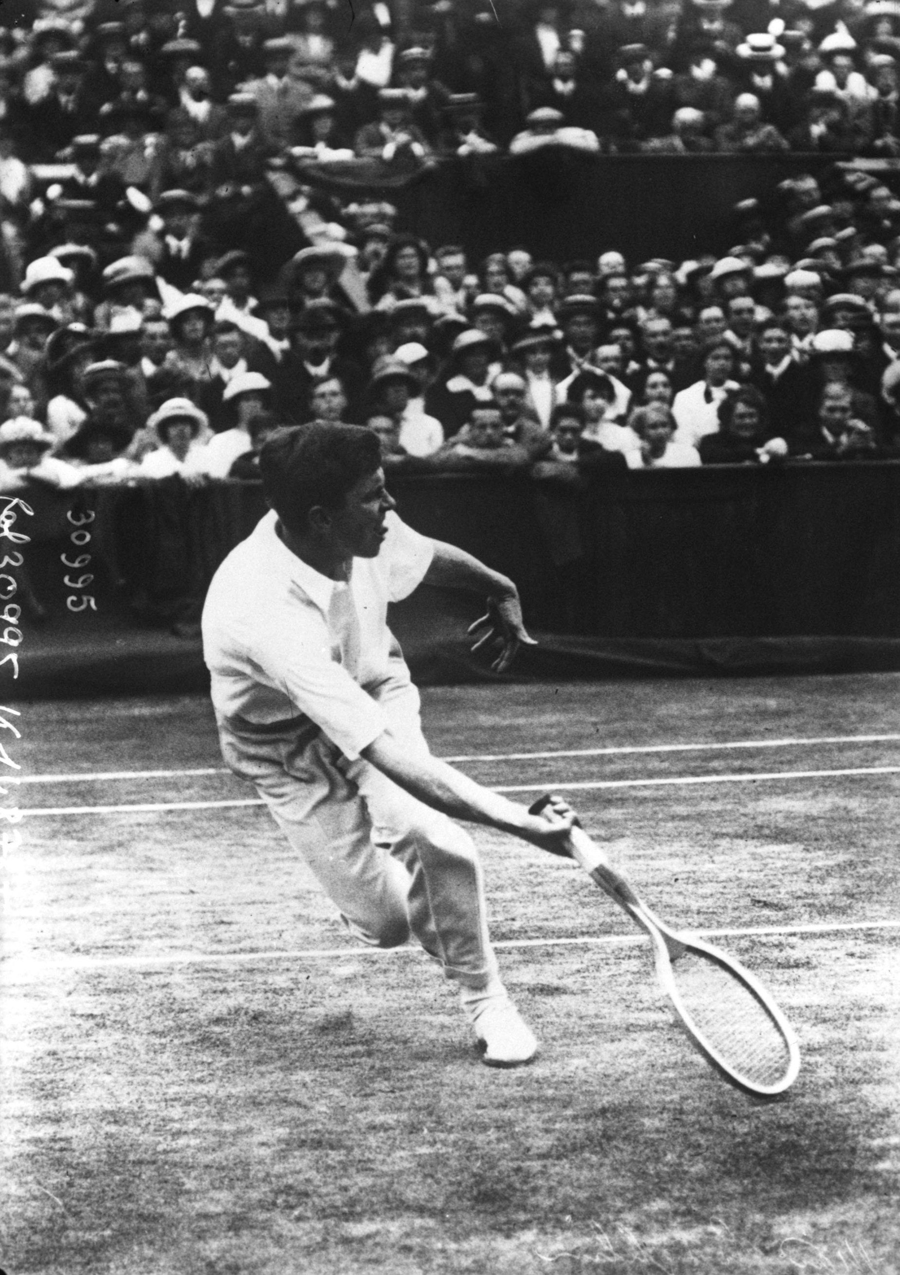 American tennis player Maurice McLoughlin in the 1913 Challenge Round match against Anthony Wilding